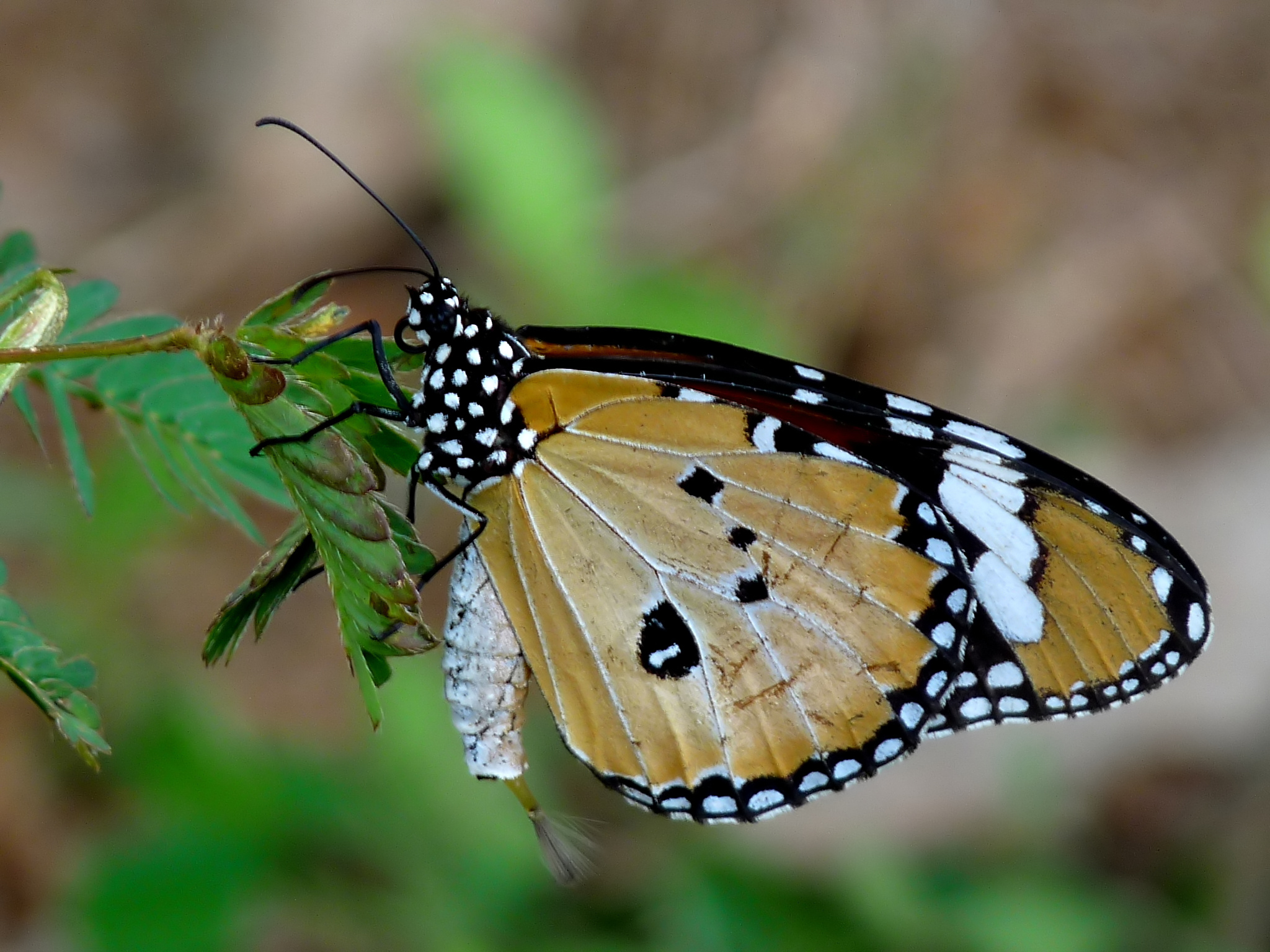 Danaus chrysippus, known as the Plain Tiger or African Monarch, is a common butterfly which is widespread in Asia and Africa. It belongs to the Danainae ("Milkweed butterflies") subfamily of the brush-footed butterfly family, Nymphalidae. The Plain Tiger can be considered the archetypical danaine of India. Accordingly, this species has been studied in greater detail than other members of its subfamily occurring in India. The male Plain Tiger is smaller than the female, but more brightly colored. In addition, males have a number of secondary sexual characteristics. The male has a pouch on the hindwing. This spot is white with a thick black border and bulges slightly. It is a cluster of specialised scent scales used to attract females. The males possess two brush-like organs which can be pushed out of the tip of the abdomen. Taken at Kudayathoor, Kerala, India.